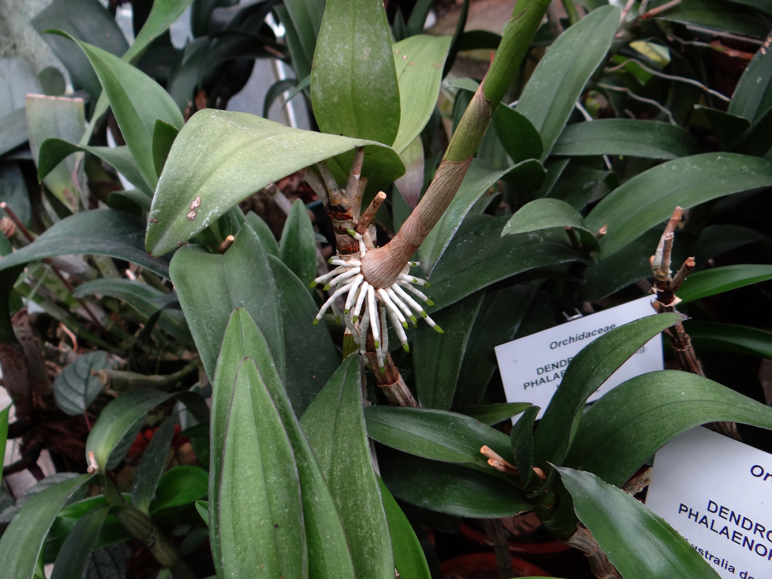 Dendrobium bigibbum (location:Botanical Garden in Cracow)